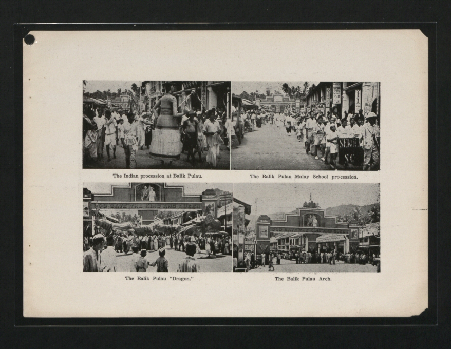 Description: The Indian procession at Balik Pulau. Location: Penang, Malaya Date: Taken in 1937 Description: The Balik Pulau Malay School procession. Location: Penang, Malaya Date: Taken in 1937 Description: The Balik Pulau "Dragon." Location: Penang, Malaya Date: Taken in 1937 Description: The Balik Pulau Arch. Location: Penang, Malaya Date: Taken in 1937 Our Catalogue Reference: Part of CO 1069/502. This image is part of the Colonial Office photographic collection held at The National Archives. Feel free to share it within the spirit of the Commons. Please use the comments section below the pictures to share any information you have about the people, places or events shown. We have attempted to provide place information for the images automatically but our software may not have found the correct location. For high quality reproductions of any item from our collection please contact our image library